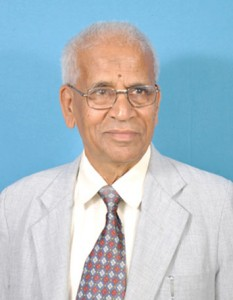 This is a photograph.